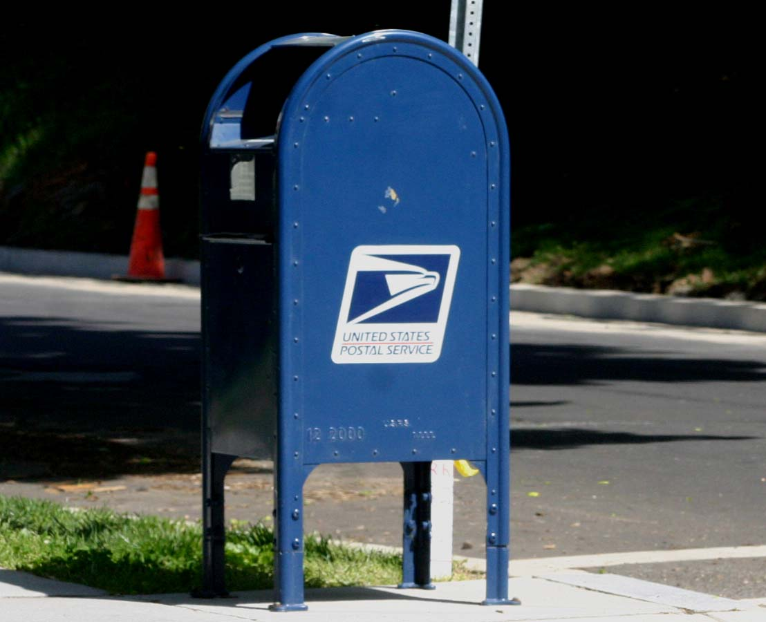 Aldrich Ames, CIA spy : copy of the mailbox used to signal his Russian counterparts. "This (replacement) mailbox is identical to the one, and in the same location that convicted spy Aldrich Ames used to signal his Russian counterparts. Ames would place a horizontal chalk mark about 3" long above the USPS logo to let his Russian handlers know he needed a meeting. This (replacement) mailbox is located at 37th and R Sts. NW about 0.8 miles from the Russian Embassy. The original mailbox was taken as evidence and is now owned by a museum." — dbking